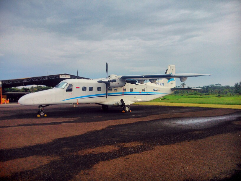 Susi Air Dornier 228-212NG (HAL/RUAG)